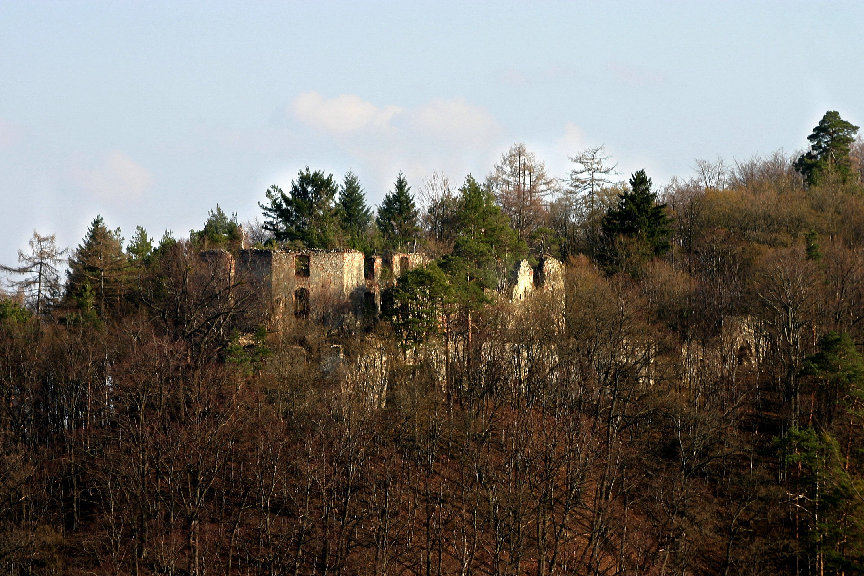 Schwarzenbach, Lower Austria (Austria), (Castle).